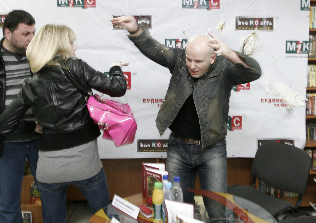 22 March 2009 Alexandra Shevchenko throwing a cake into a writer's face Oles Buzina in a Kiev bookstore in protest of his men's rights defending book.